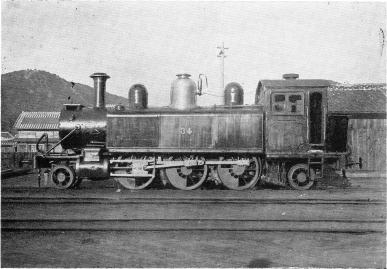 Japan Government Railway type 3300 steam locomotive